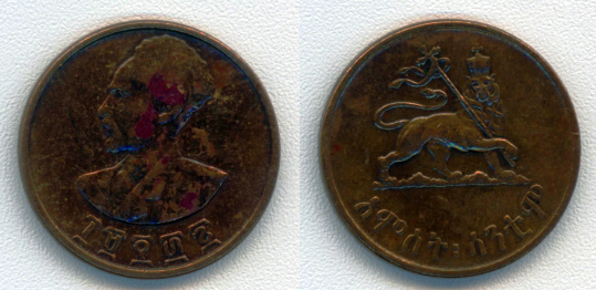 5 Santim coin from Ethiopia, minted in 1944